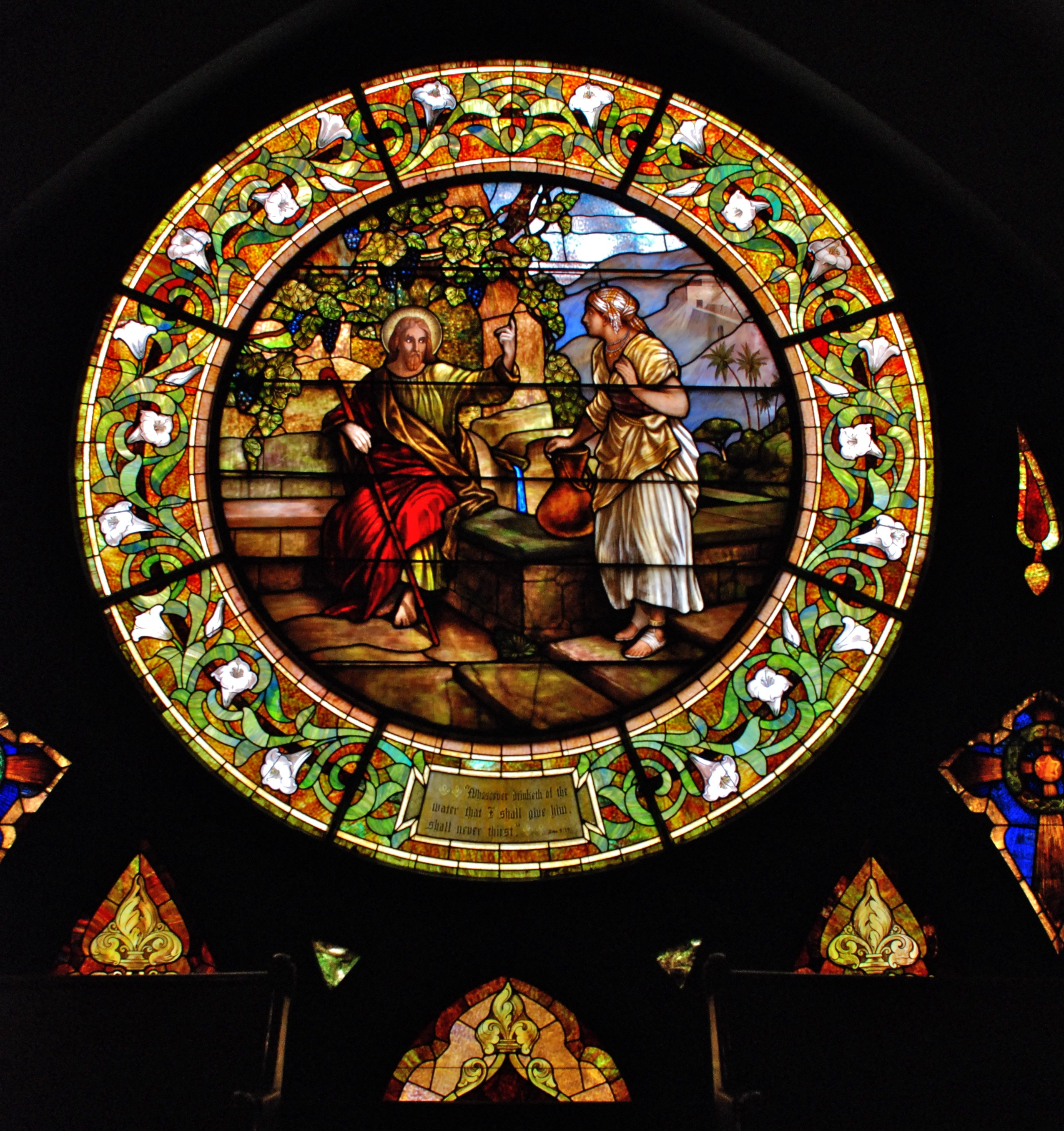 Stained glass window in the west wall of the sanctuary, balcony level, of the First Congregational United Church of Christ, in Portland, Oregon. Built over a period of six years, from 1889 to 1895, the building is listed on the U.S. National Register of Historic Places – as the First Congregational Church. This window was not among those present when the building was completed. It was installed later, as a church member's memorial to his deceased wife. It was designed and made by Portland's Povey Brothers Studio and installed in 1906.